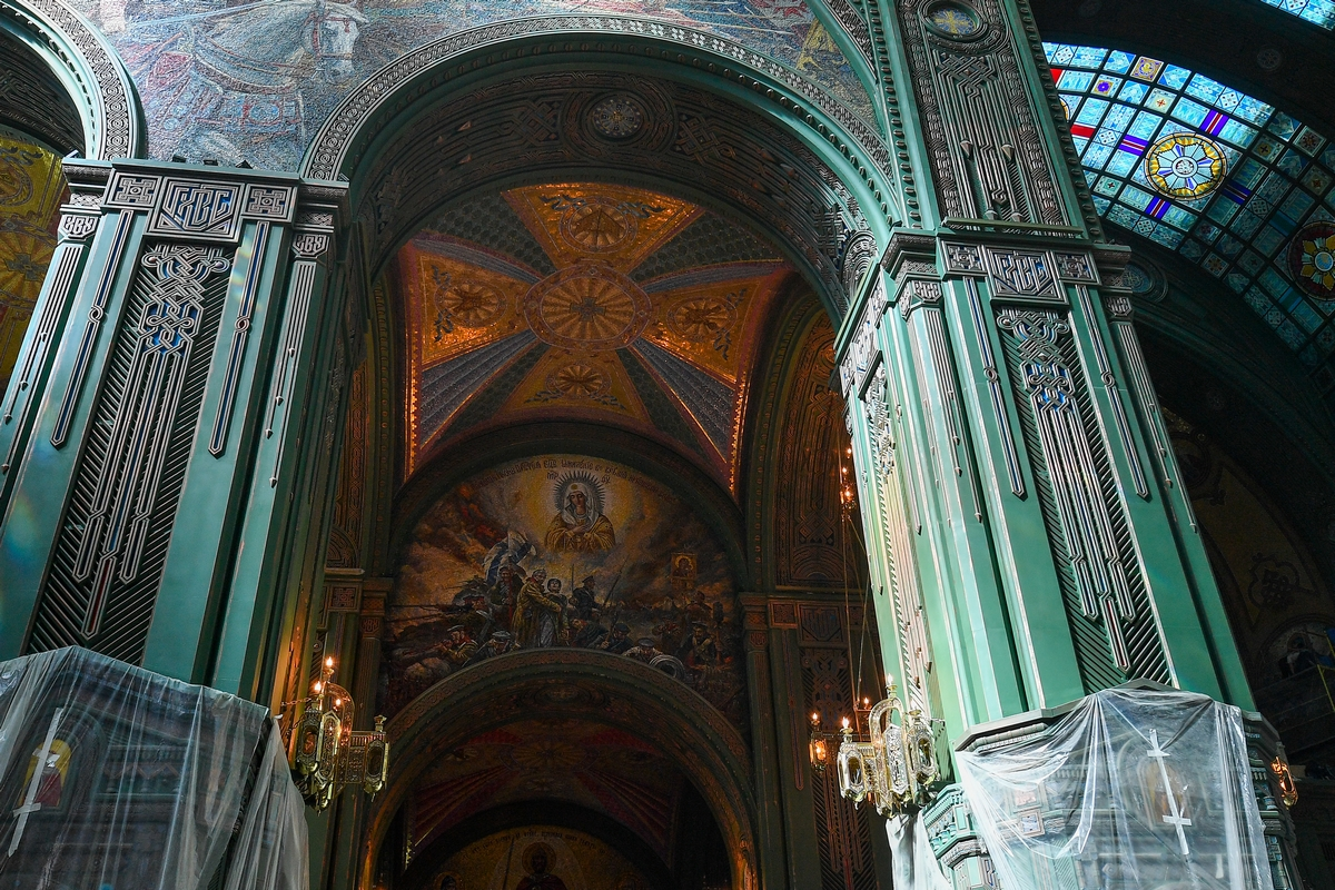 Cathedral of the Resurrection of Christ (Main Cathedral of the Russian Armed Forces).